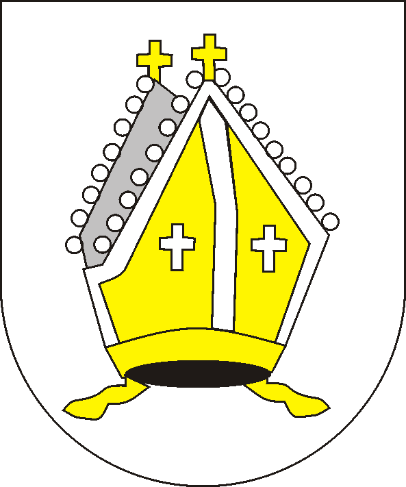 coats of arms of the priory of Ellwangen